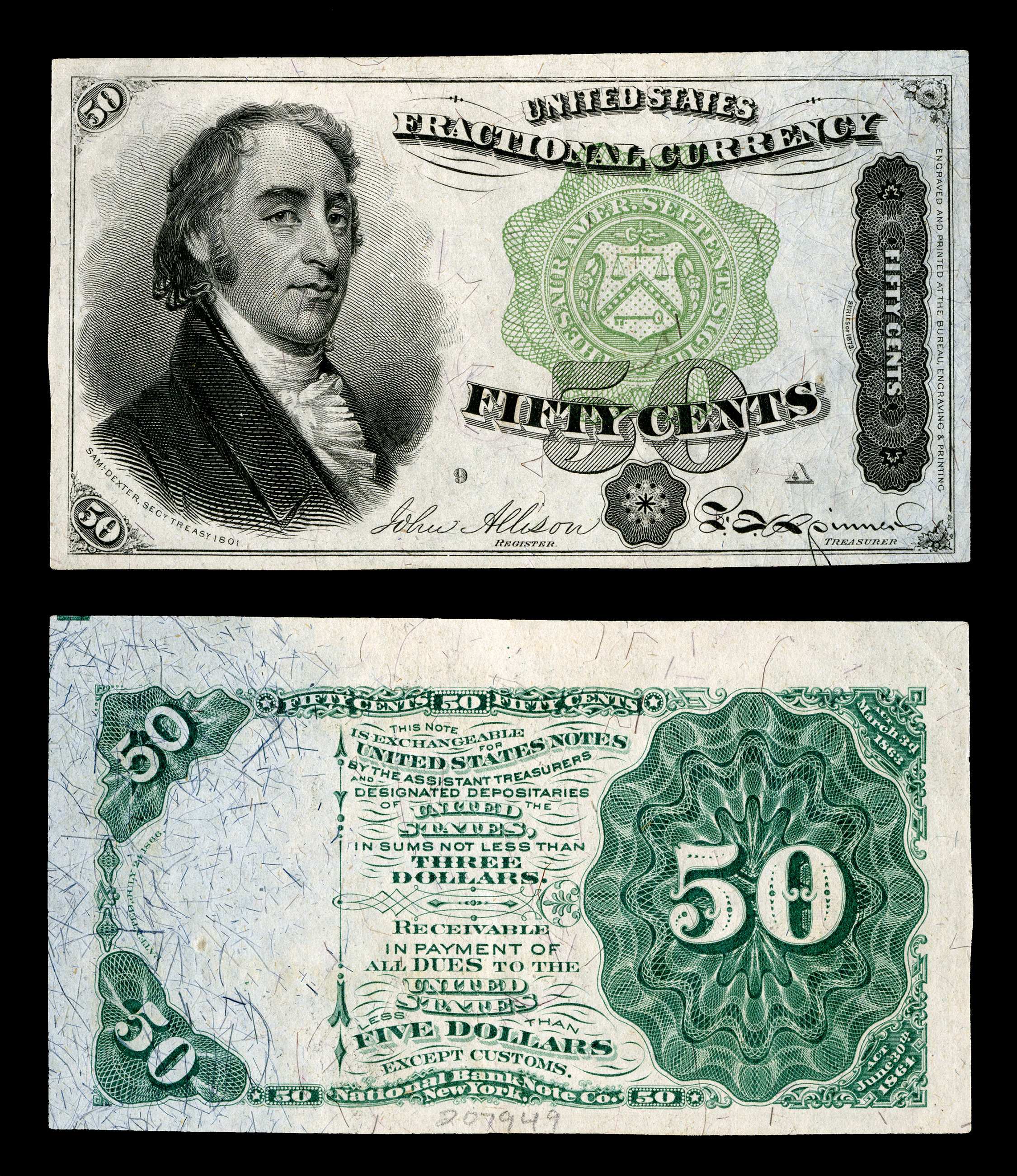 Fractional Currency was introduced by the United States Federal Government following the Civil War. These notes were in use between 21 August 1862 and 15 February 1876, and could be redeemed by the U.S. Postal Service for the face value in postage stamps. Fractional notes were issued in 3, 5, 10, 15, 25, and 50 cent denominations.